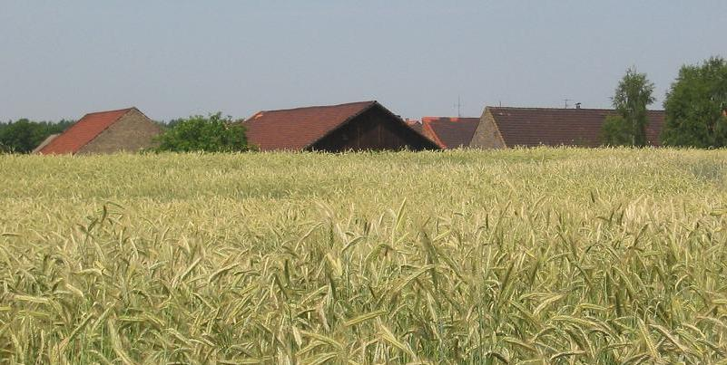 Village Kuhlowitz. The village is an incorporated part of the town Belzig in Brandenburg, Germany.